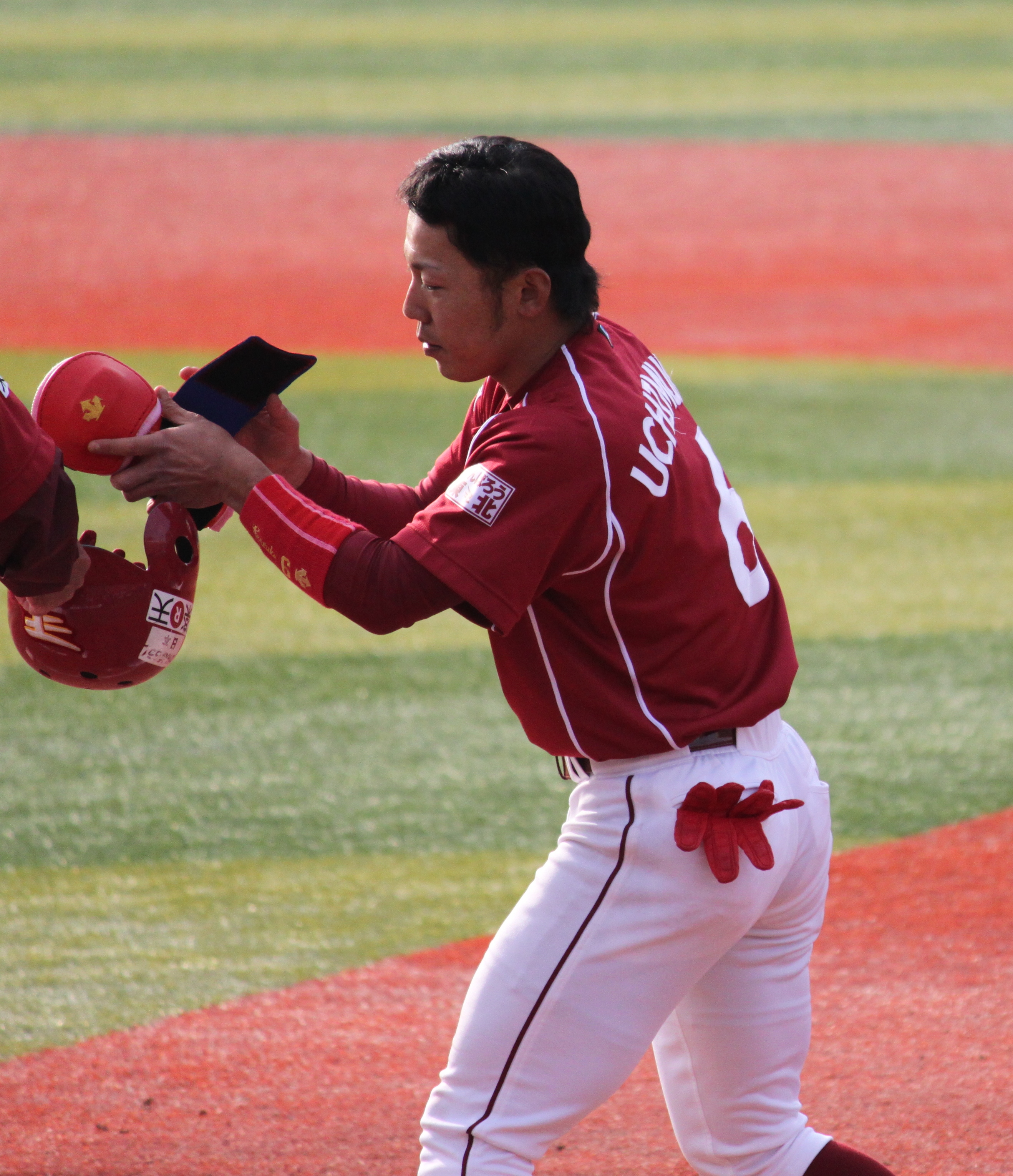 Kensuke Uchimura, infielder of the Tohoku Rakuten Golden Eagles, at Yokohama Stadium.